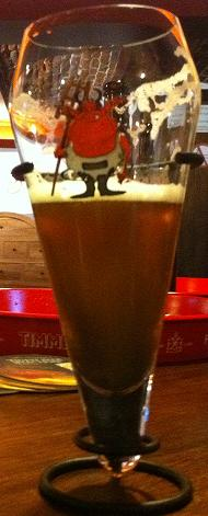 Diabolici glass 25cl